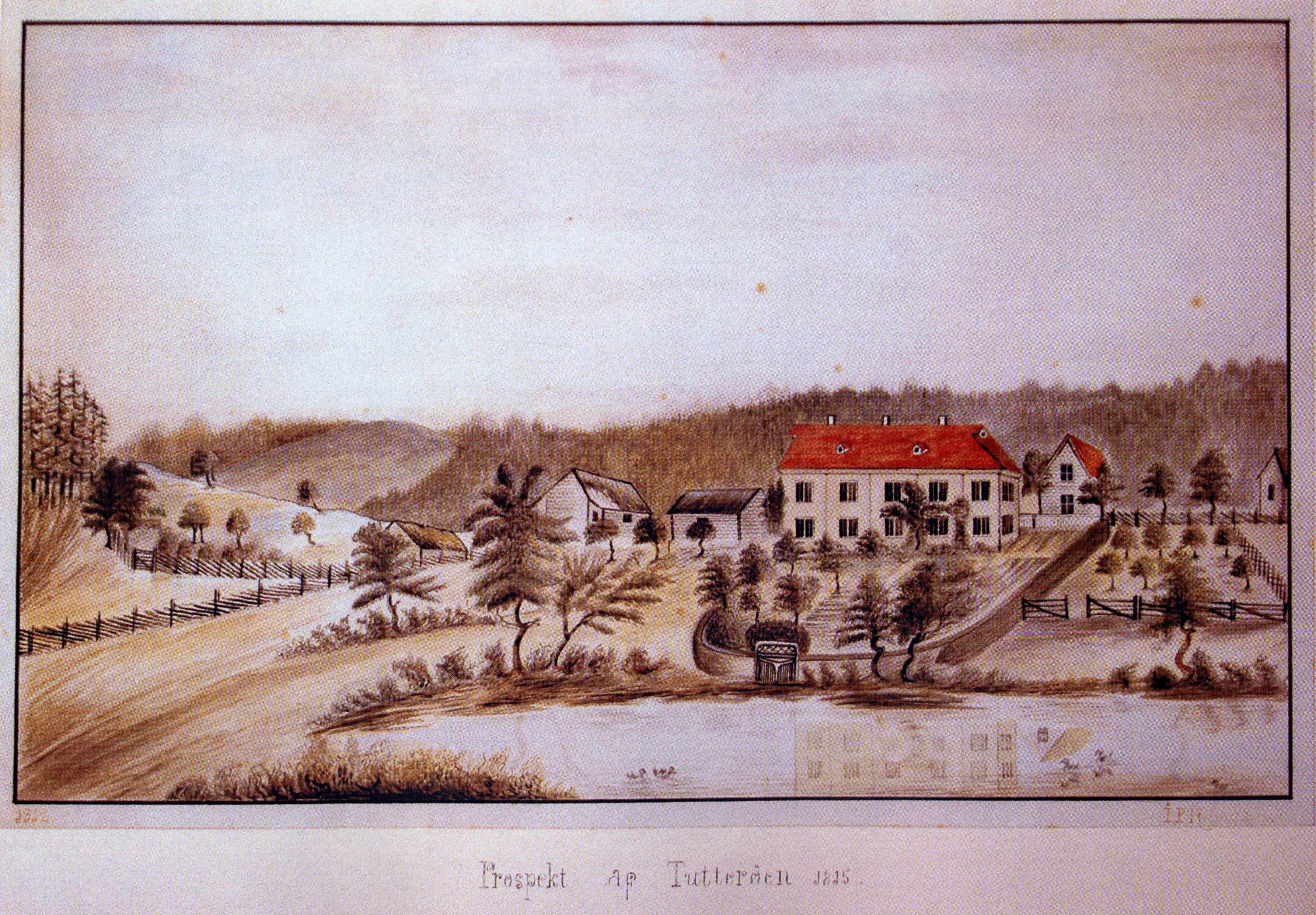 prospect showing the farm on the island Tautra in Frosta municipality, Norway. This is probably the house that counter admiral Christian Lerche erected when he owned the island (1762–1768)